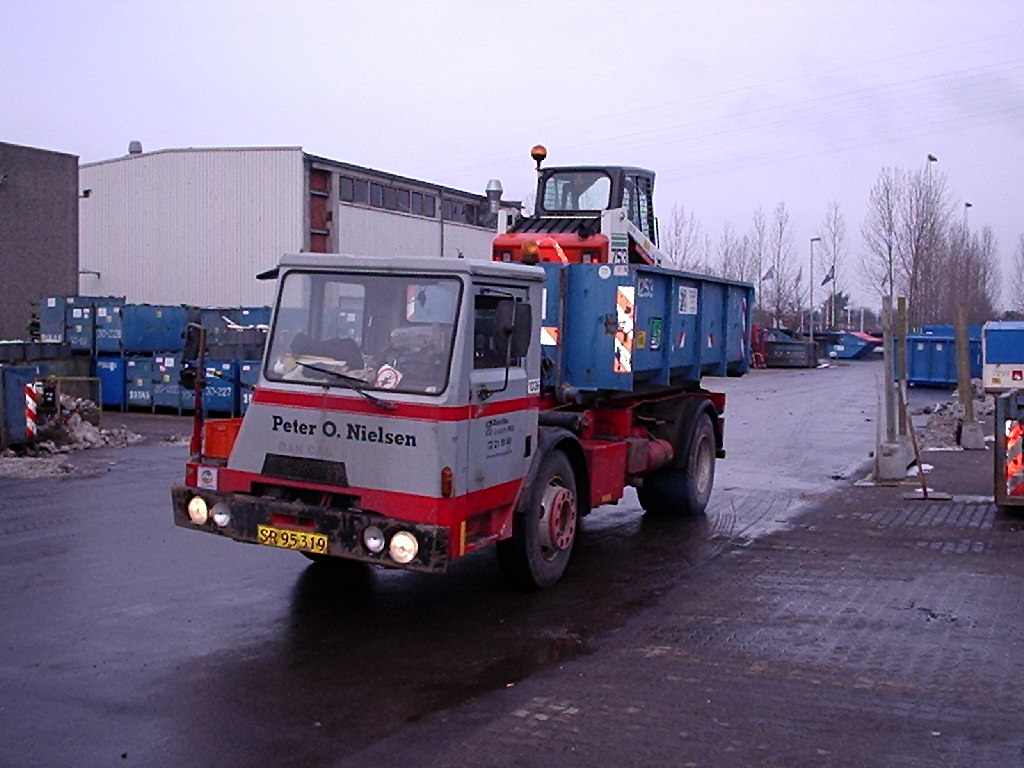 Terberg TS1000 16,5 ton truck from 1984 with custom built cabin. 2,04 m wide, 2,27 m high, loaded with 8m³ container and a Bobcat loader